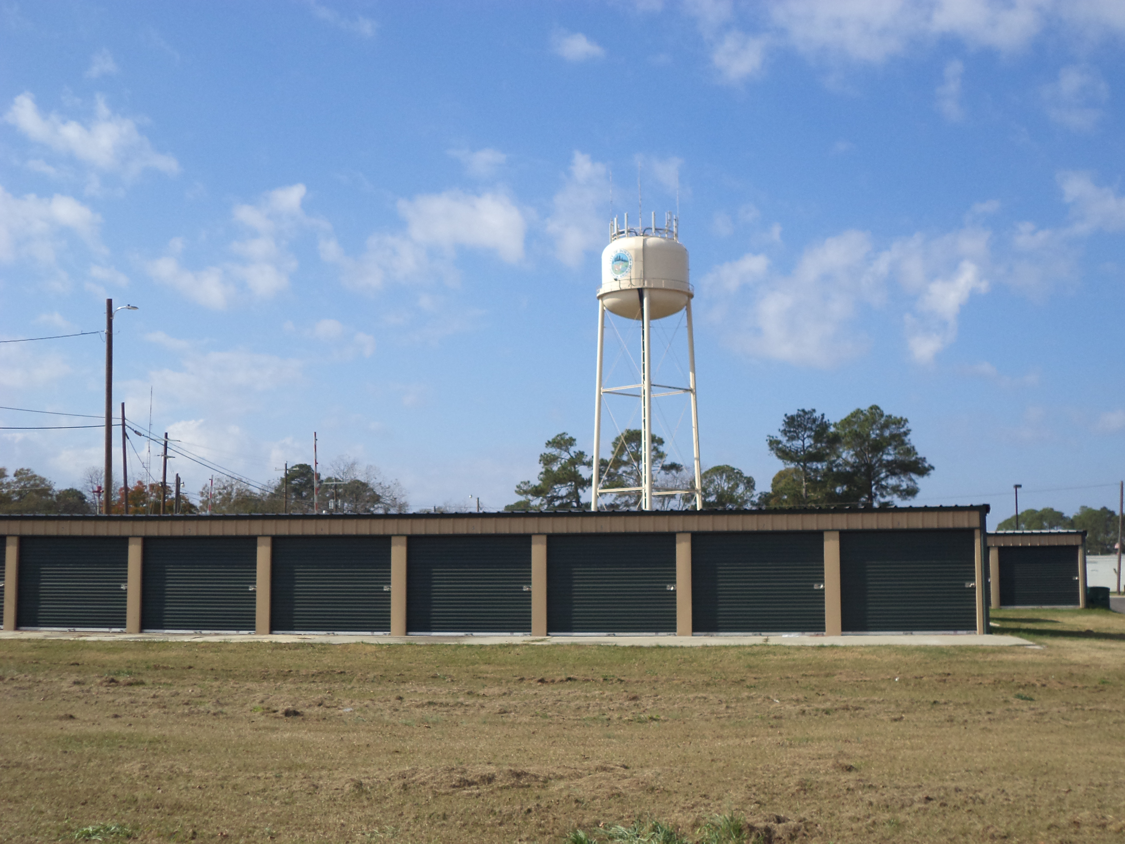 Doerun Self Storage units and water tower, Colquitt County, Georgia